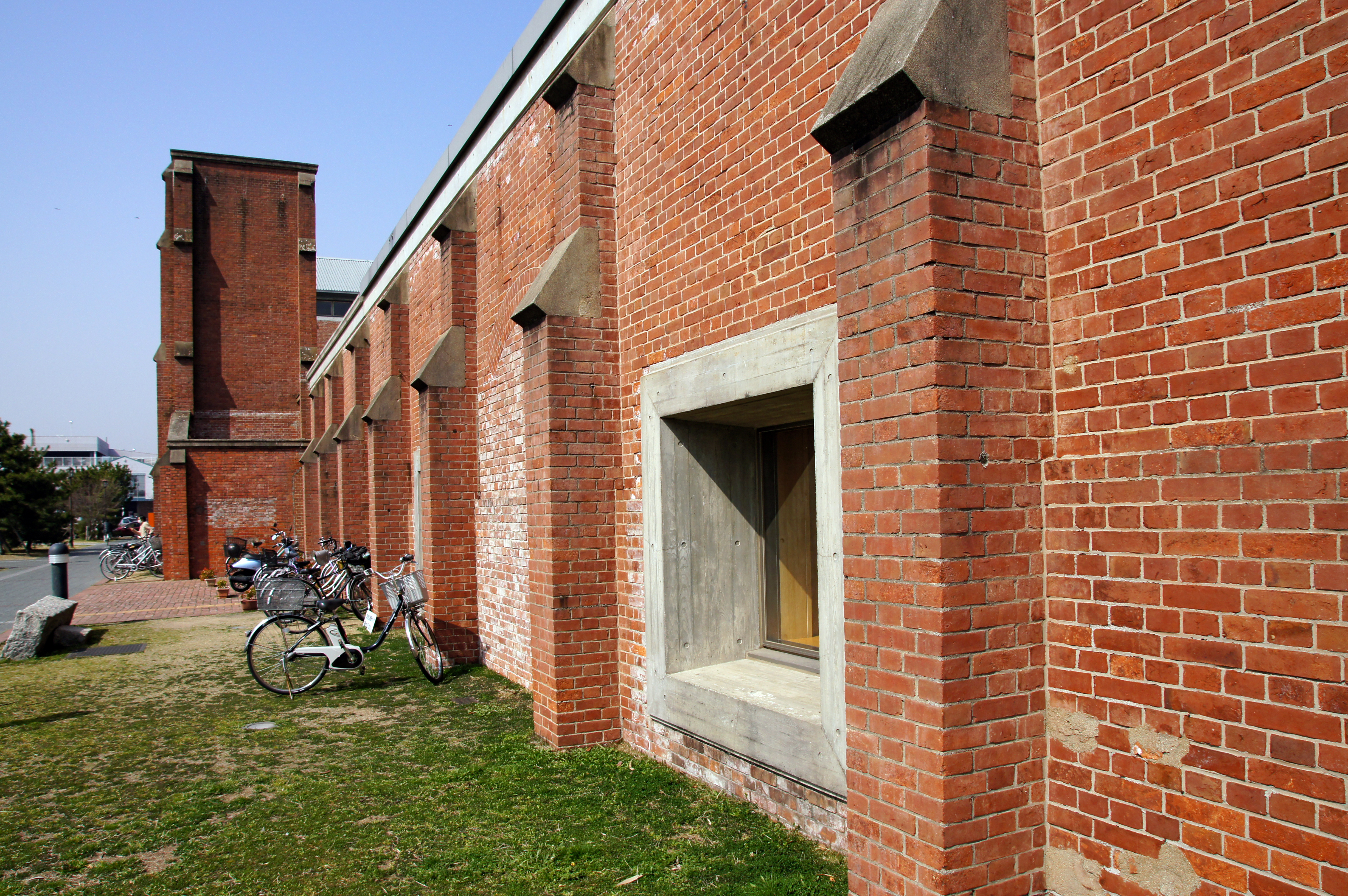 Sumoto Library in Sumoto, Hyogo prefecture, Japan.